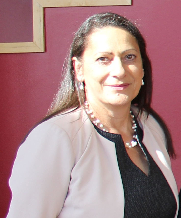 NZ MP Poto Williams in Wellington, NZ, in 2017